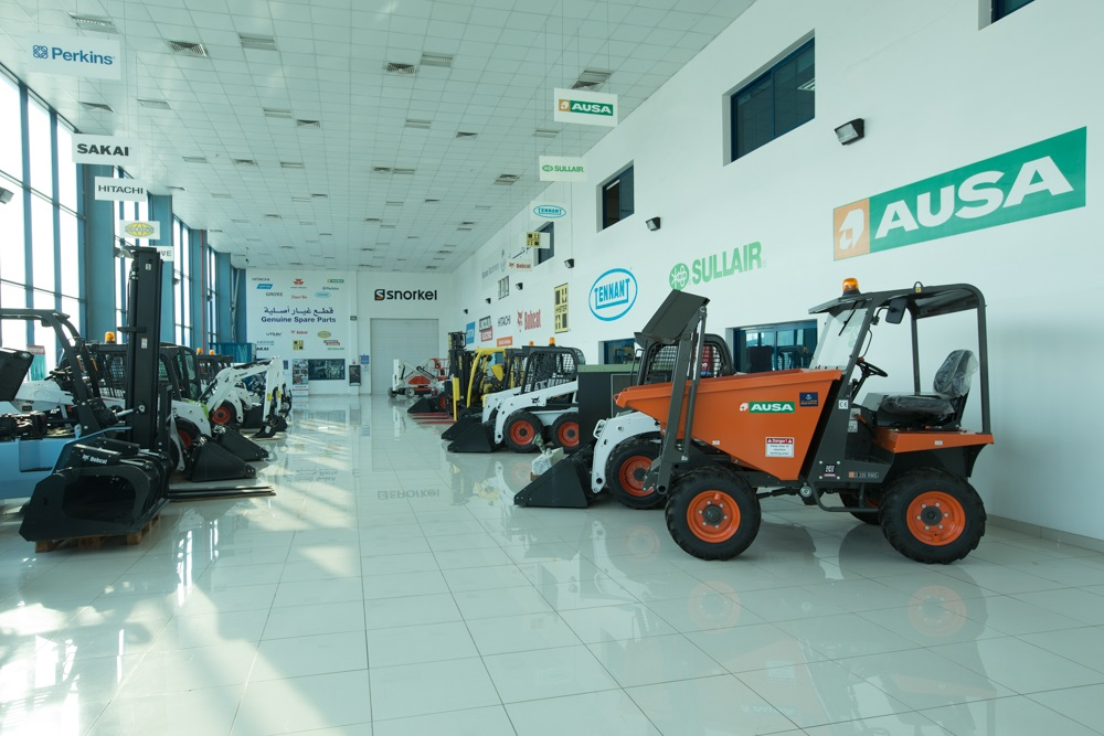 The Kanoo Group facility in Dubai